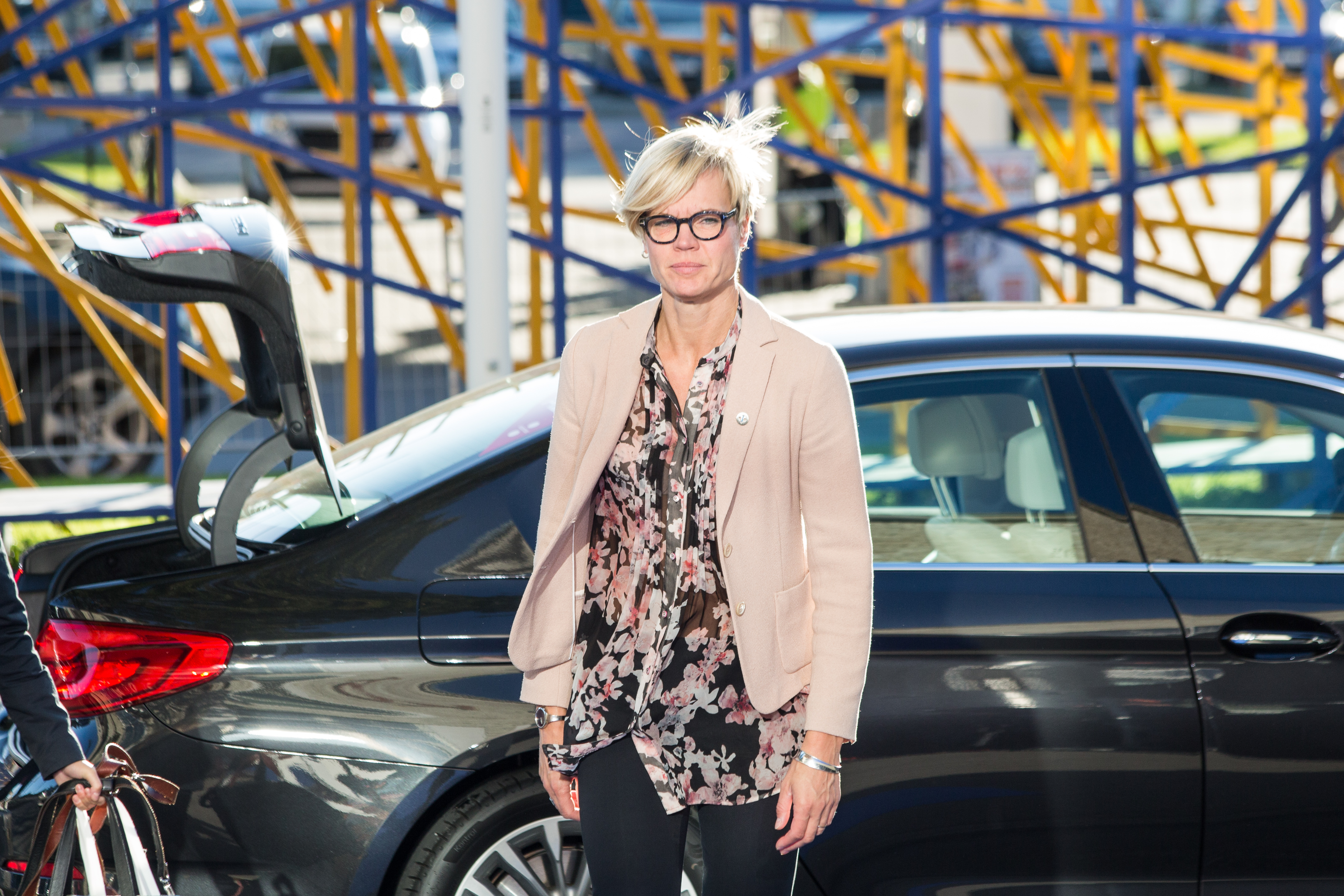 Birgitta Elisabeth Backteman, State Secretary to Minister of Rural Affairs, Ministry of Enterprise and Innovation, Sweden Photo: Aron Urb (EU2017EE)